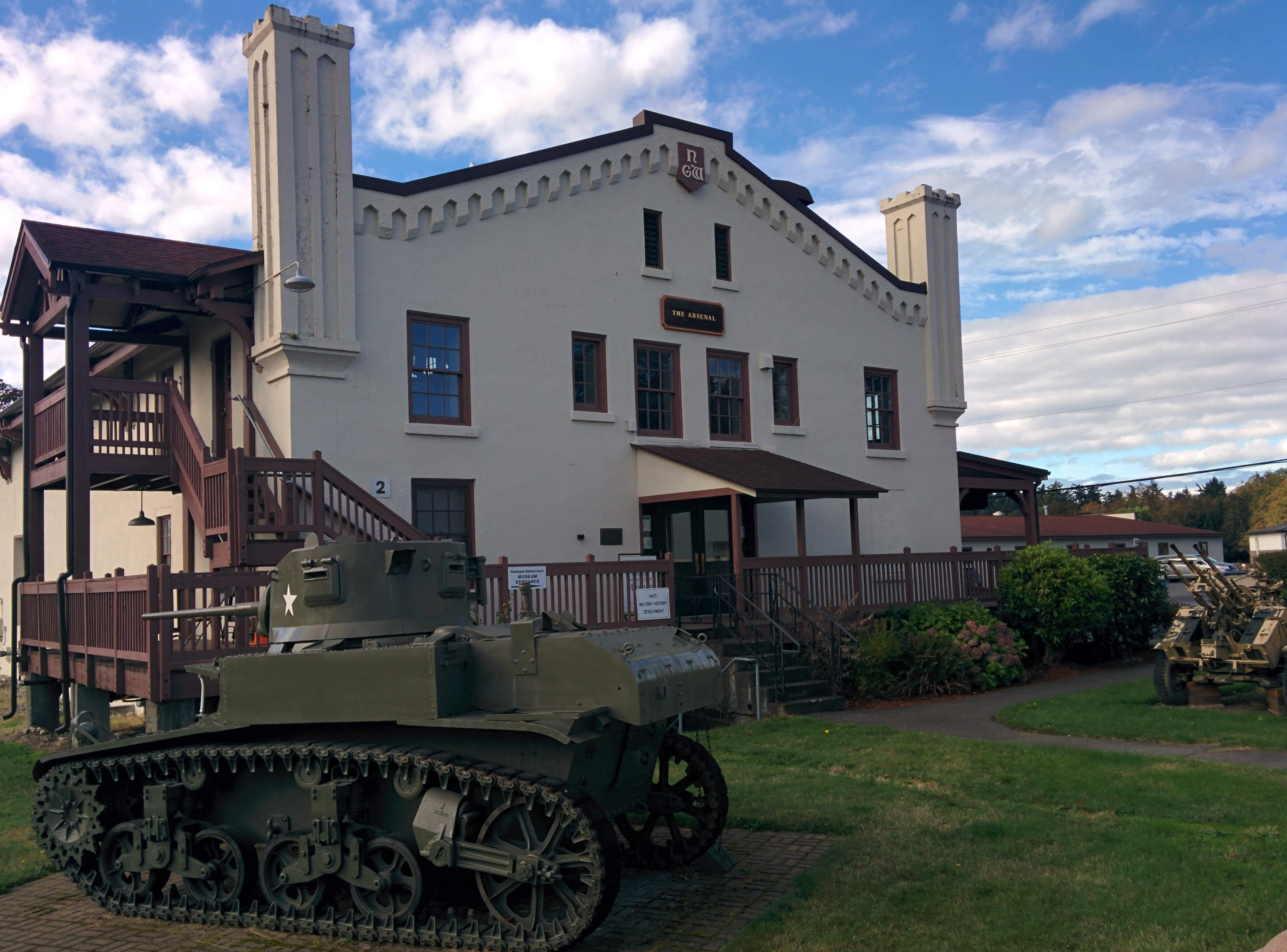 Washington National Guard museum, Camp Murray, Tacoma/Lakewood, Washington, USA